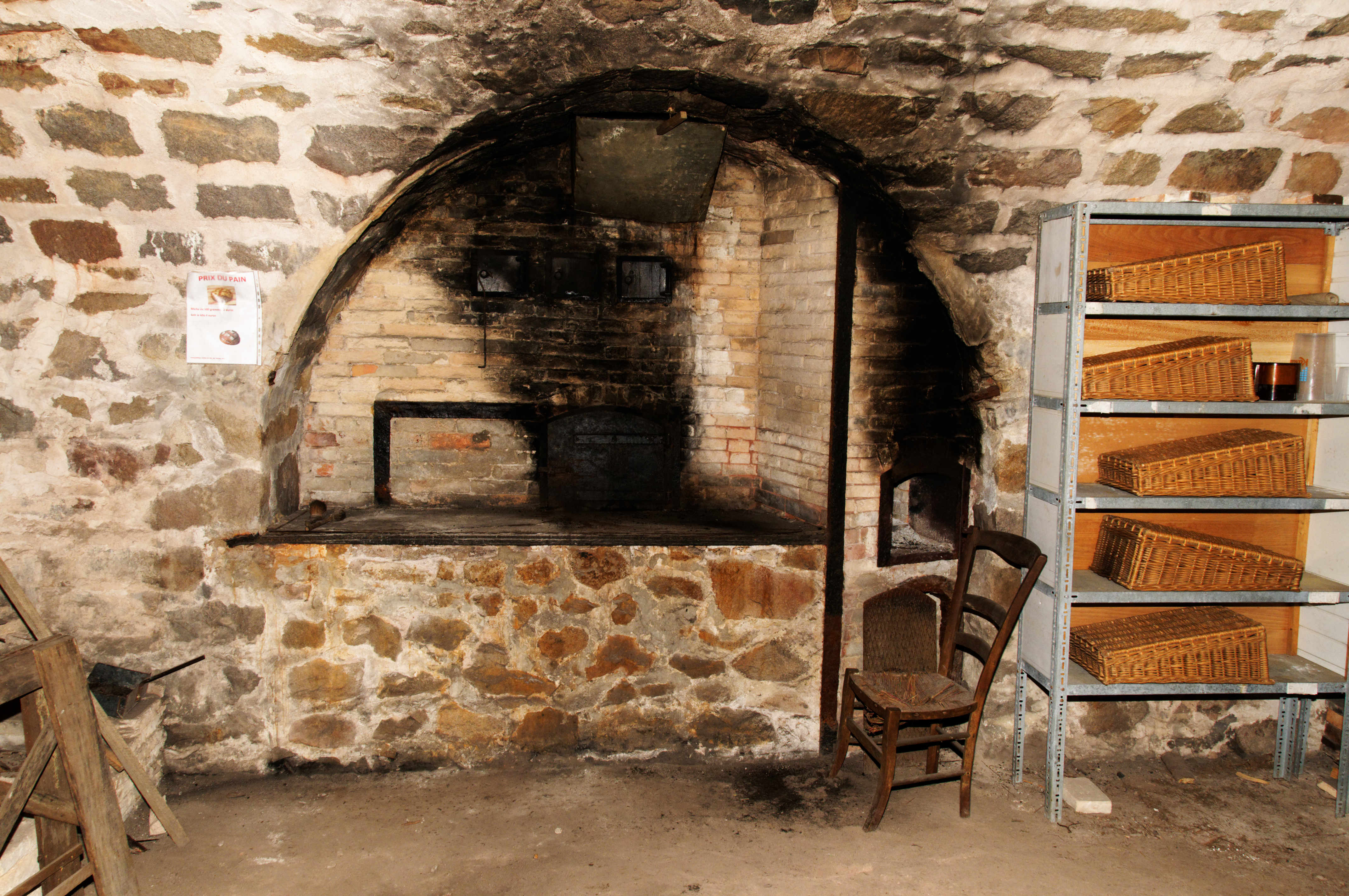 This photograph was taken with a Nikon D300 Fort du Parmont : petite boulangerie.